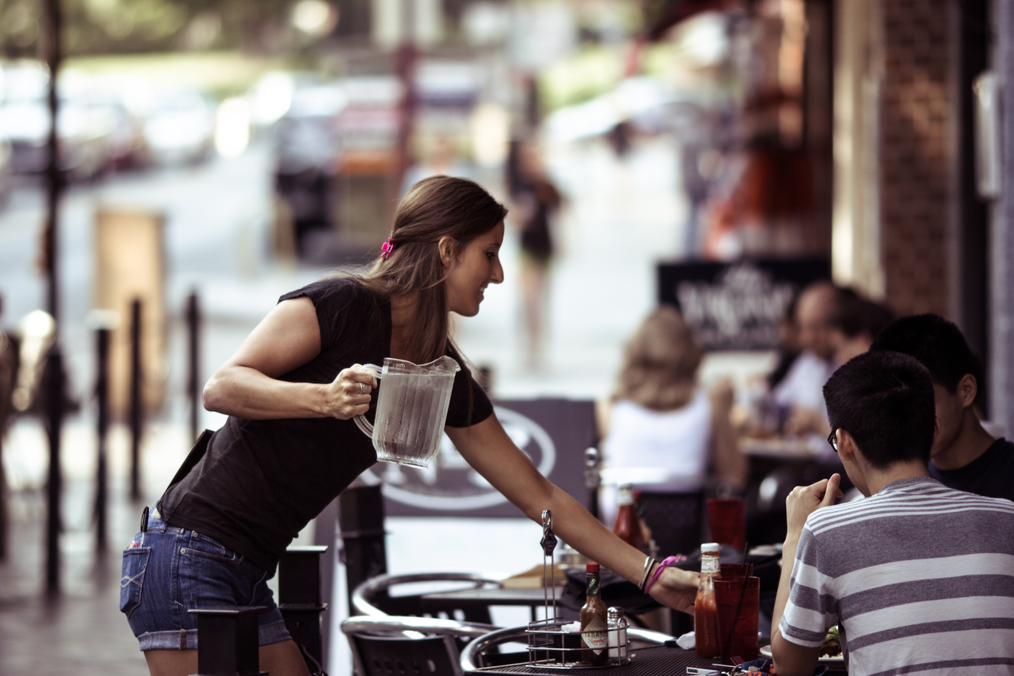 Outside the No. 3 restaurant in 2012 on 1517 University Ave (since closed and replaced by Eddy's Tavern as of 2015)